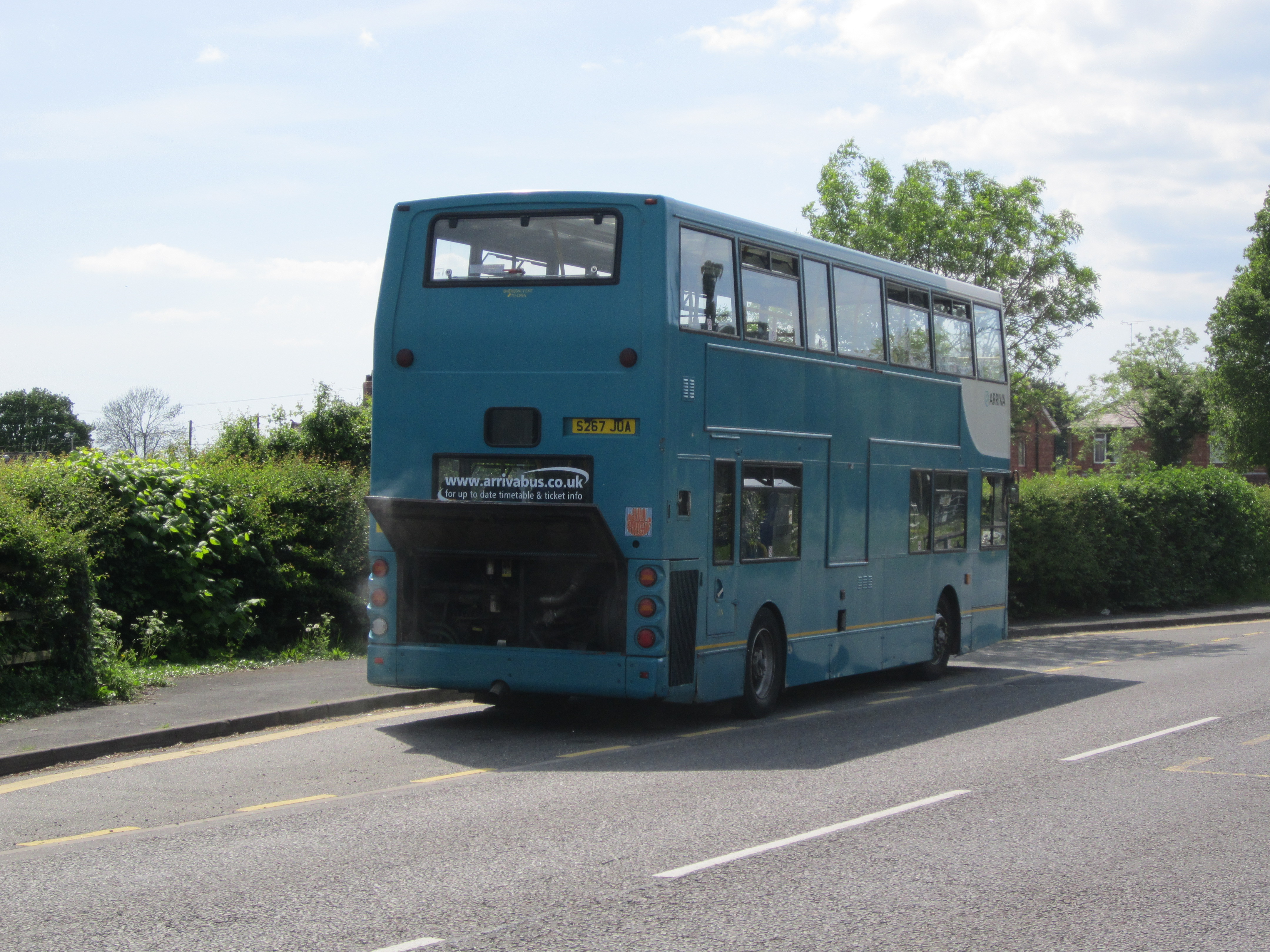 Overheated bus on Middlewich Road, Winsford, Cheshire, England.